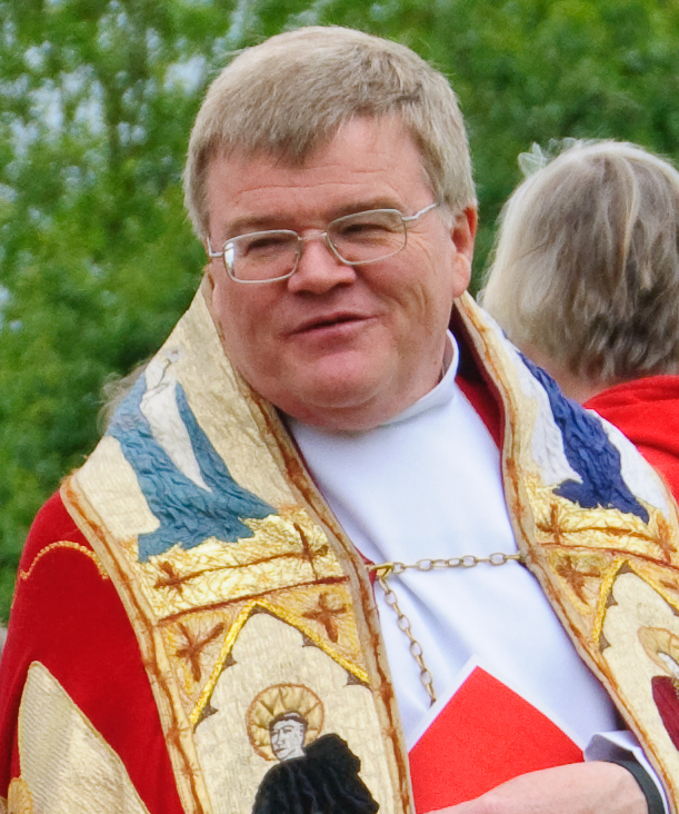 Graeme Knowles, Dean of St Paul's, and Jeffrey John, Dean of St Albans